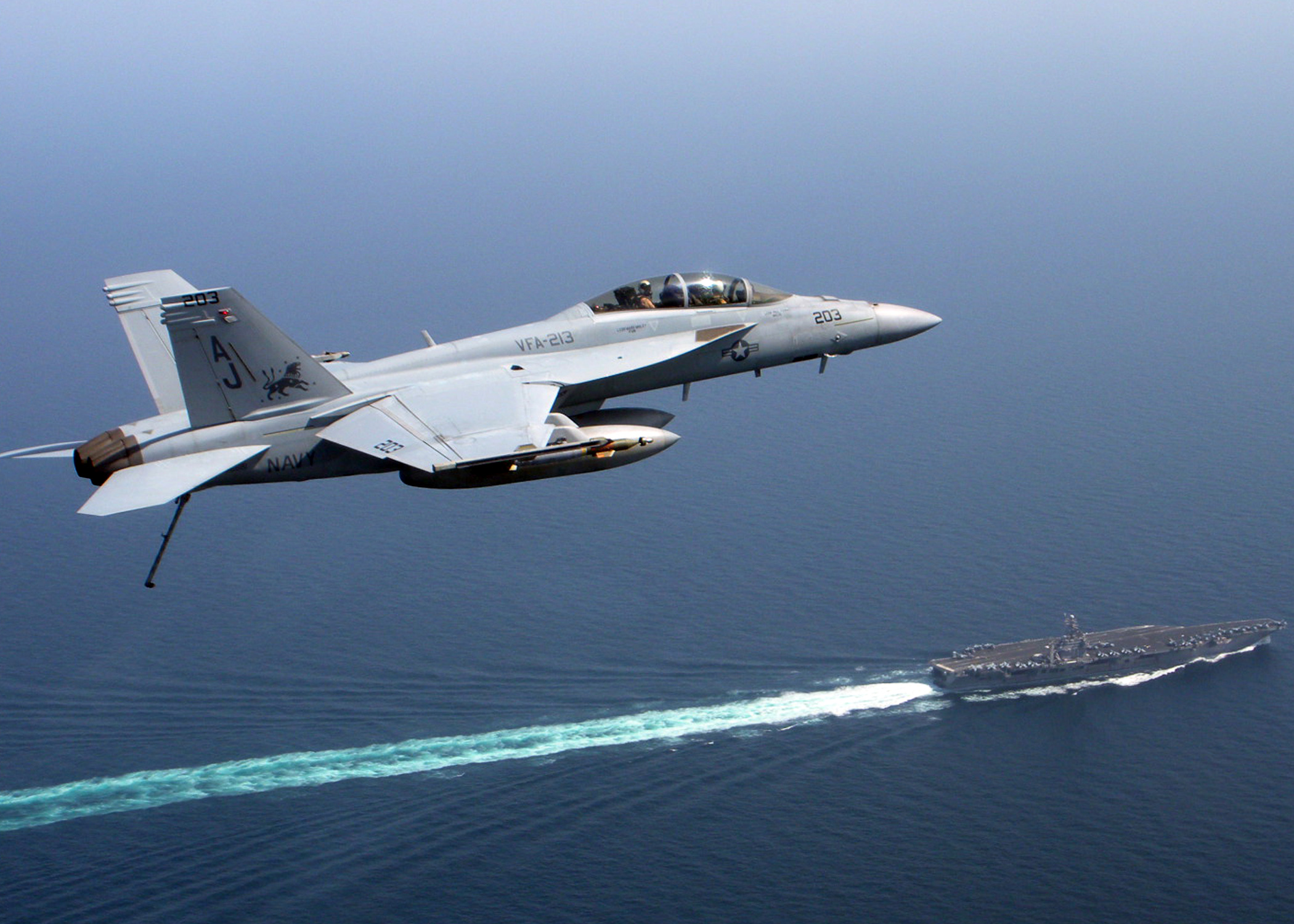 081101-N-0000C-001 GULF OF OMAN (Nov. 1, 2008) An F/A 18 Super Hornet, assigned to the "Blacklions" of Strike Fighter Squadron (VFA) 213, flies over the aircraft carrier USS Theodore Roosevelt (CVN 71) during flight operations. VFA-213 is assigned to Carrier Air Wing (CVW) 8. The Theodore Roosevelt Strike Group is on a scheduled deloyment to the U.S. 5th Fleet area of responsibility, and is focused on reassuring regional partners of the United States' commitment to security, which promotes stability and global prosperity. (U.S. Navy photo by Lt. Cmdr. Johnnie Caldwell/Released)